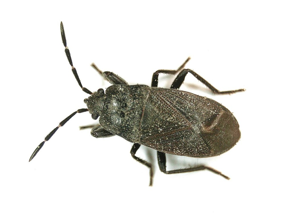 Megalonotus dilatatus (Lygaeidae) - (imago), Molenhoek - NS-terrein, the Netherlands